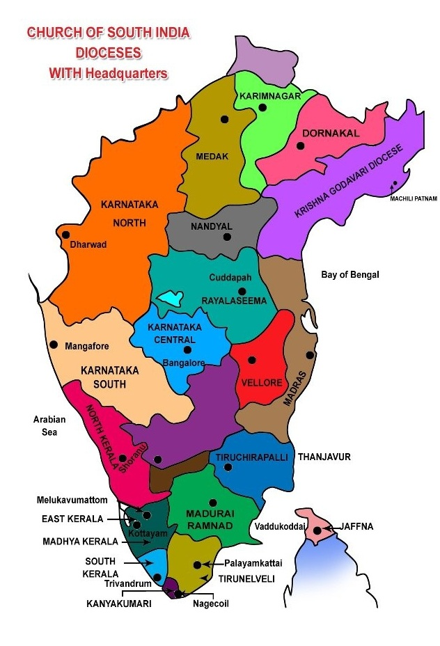 Church of South India Dioceses